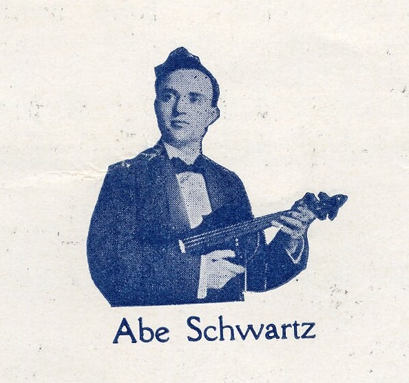 This is a portrait of Abe Schwartz, a klezmer violinist from New York City, from the cover of a score he arranged and published in 1922 (Die shaine yugend).